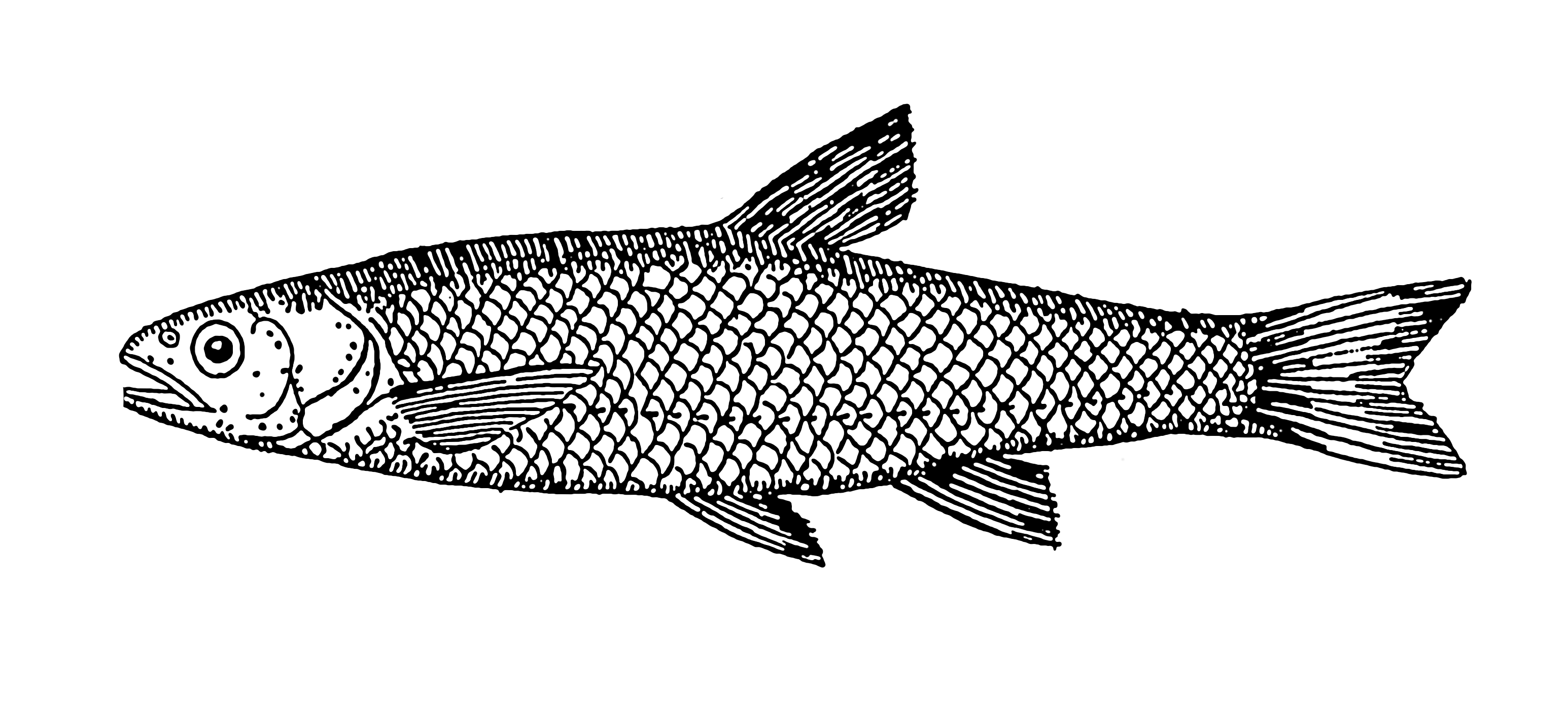 Line art drawing of a dace.